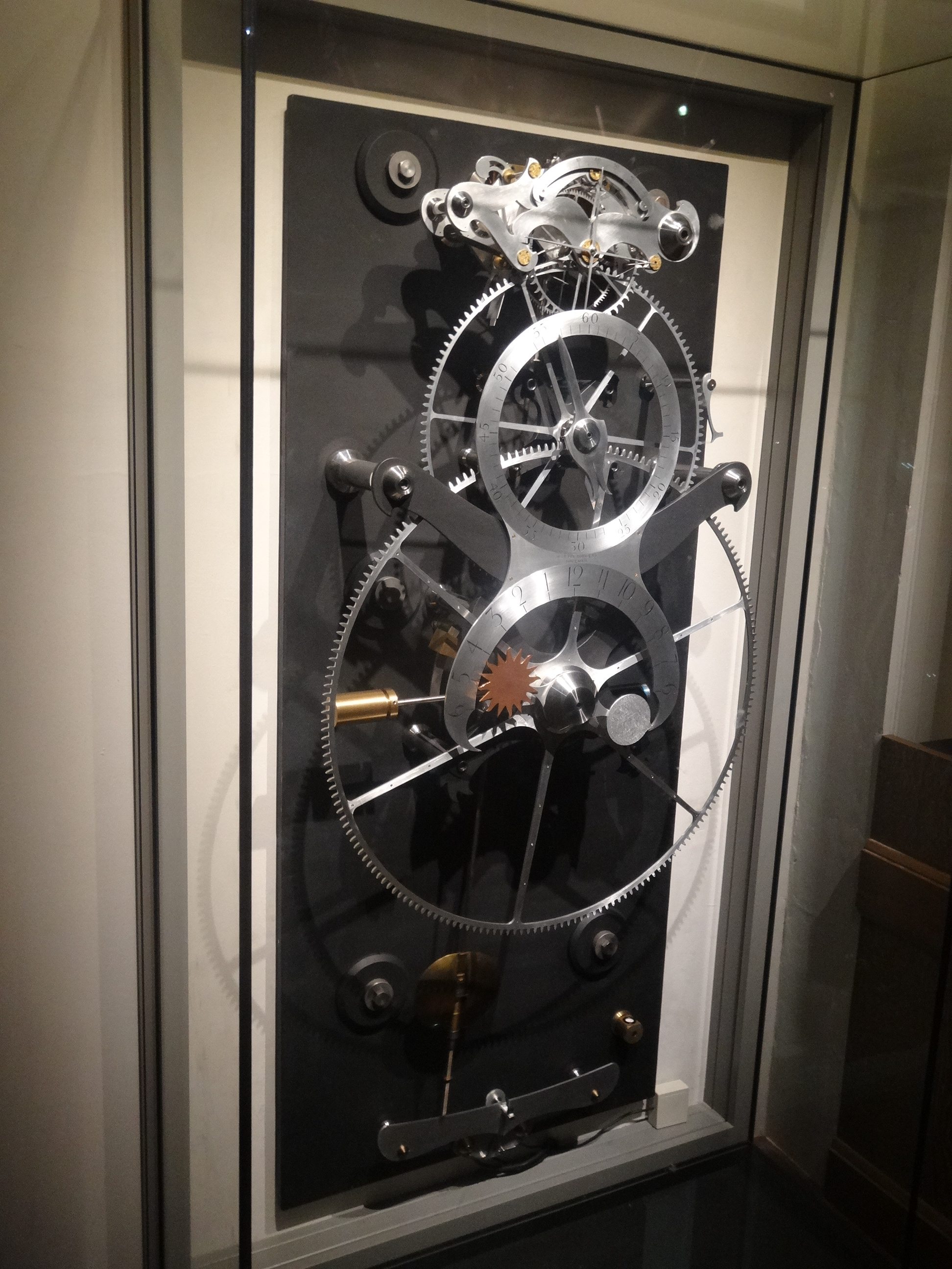 Martin Burgess - Clock B at the Royal Observatory, Greenwich